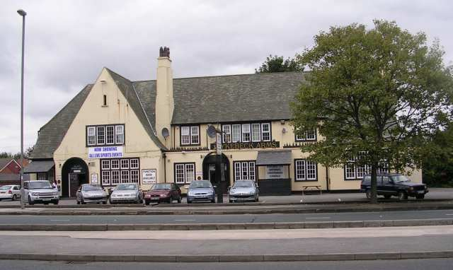 Wykebeck Arms - Selby Road